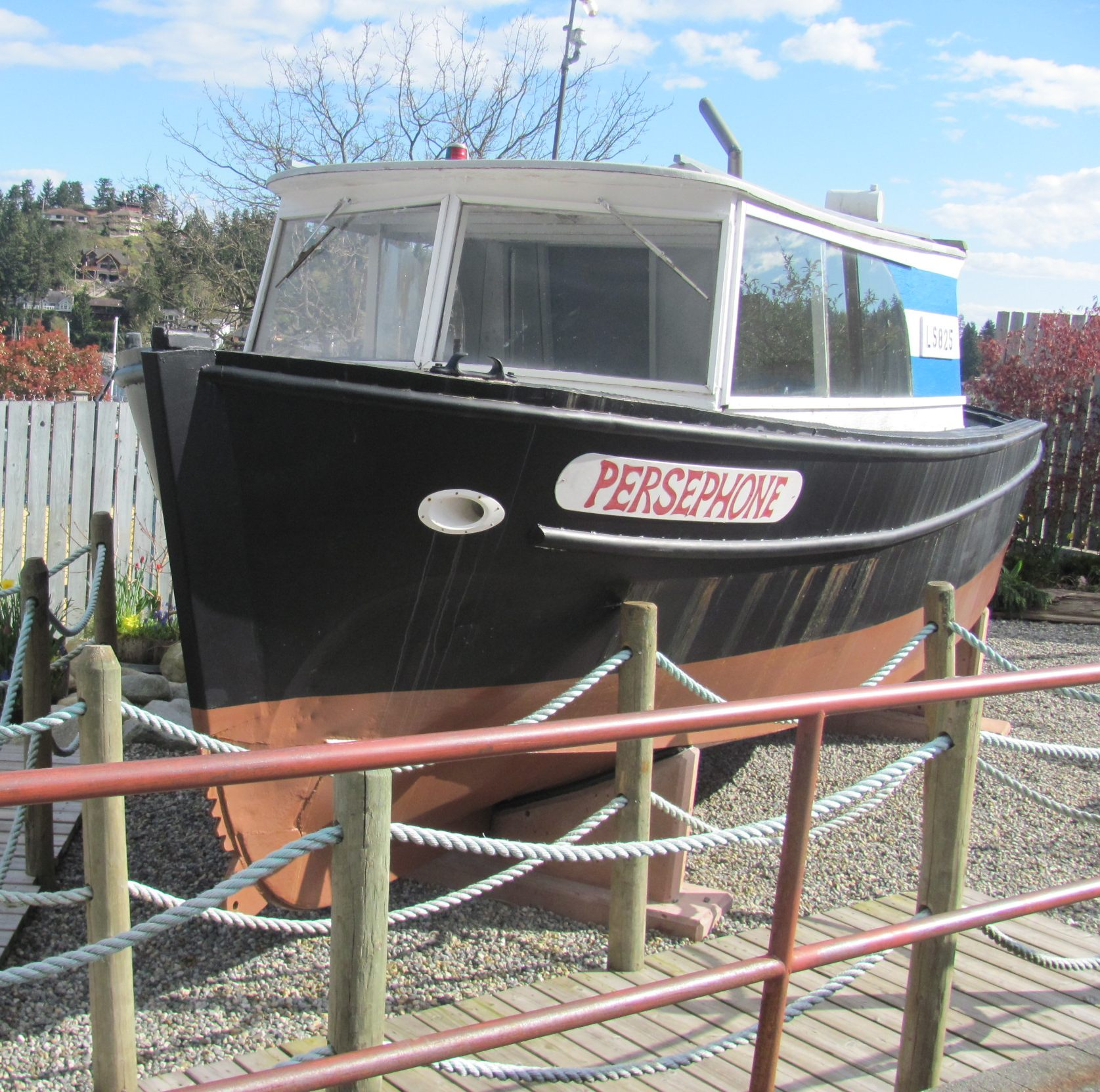 The restored tug and work boat Persephone from the CBC TV series "The Beachcombers" on display at Gibsons, British Columbia, 2011.